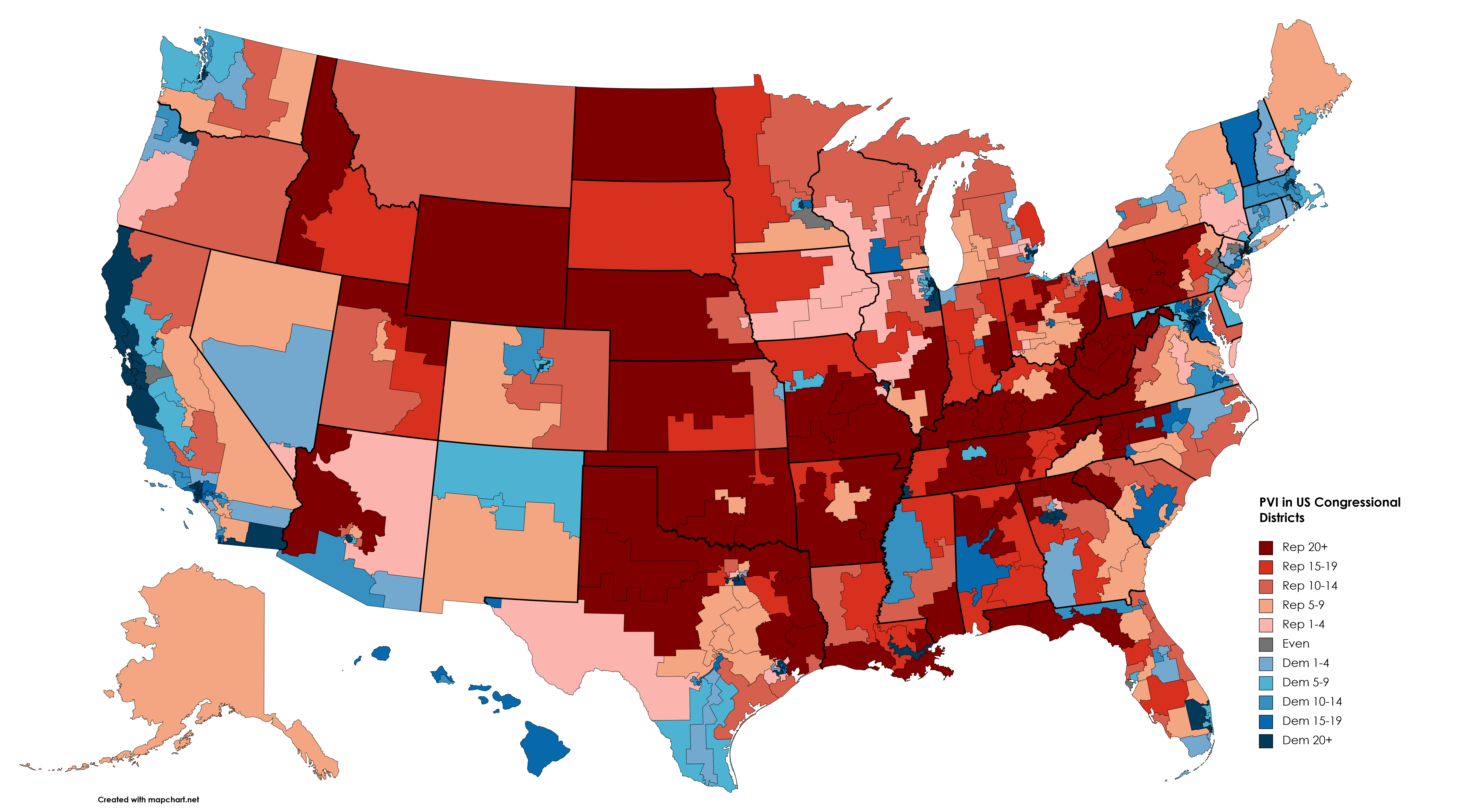 This contains updated Cook Partisan Voting Index information as of August 8, 2018, with the new Pennsylvania maps used